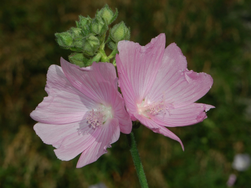 Malva alcea - Arquata S., Alessandria, Italy